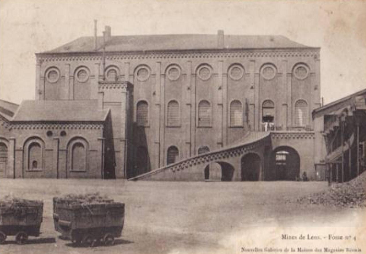 Coalpit n° 4, Compagnie des mines de Lens, Lens, Pas-de-Calais, France.